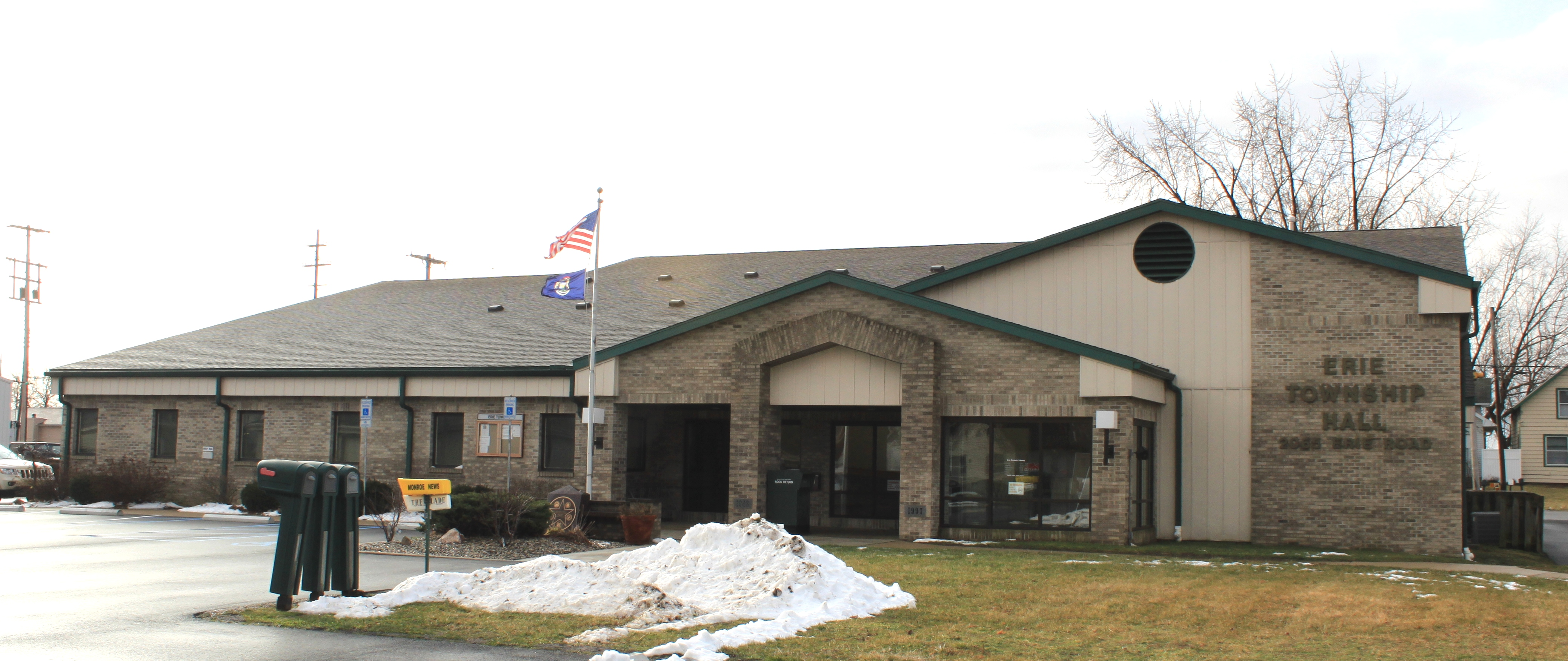 Erie Township Hall, 2065 Erie Road, Erie Township, Michigan.